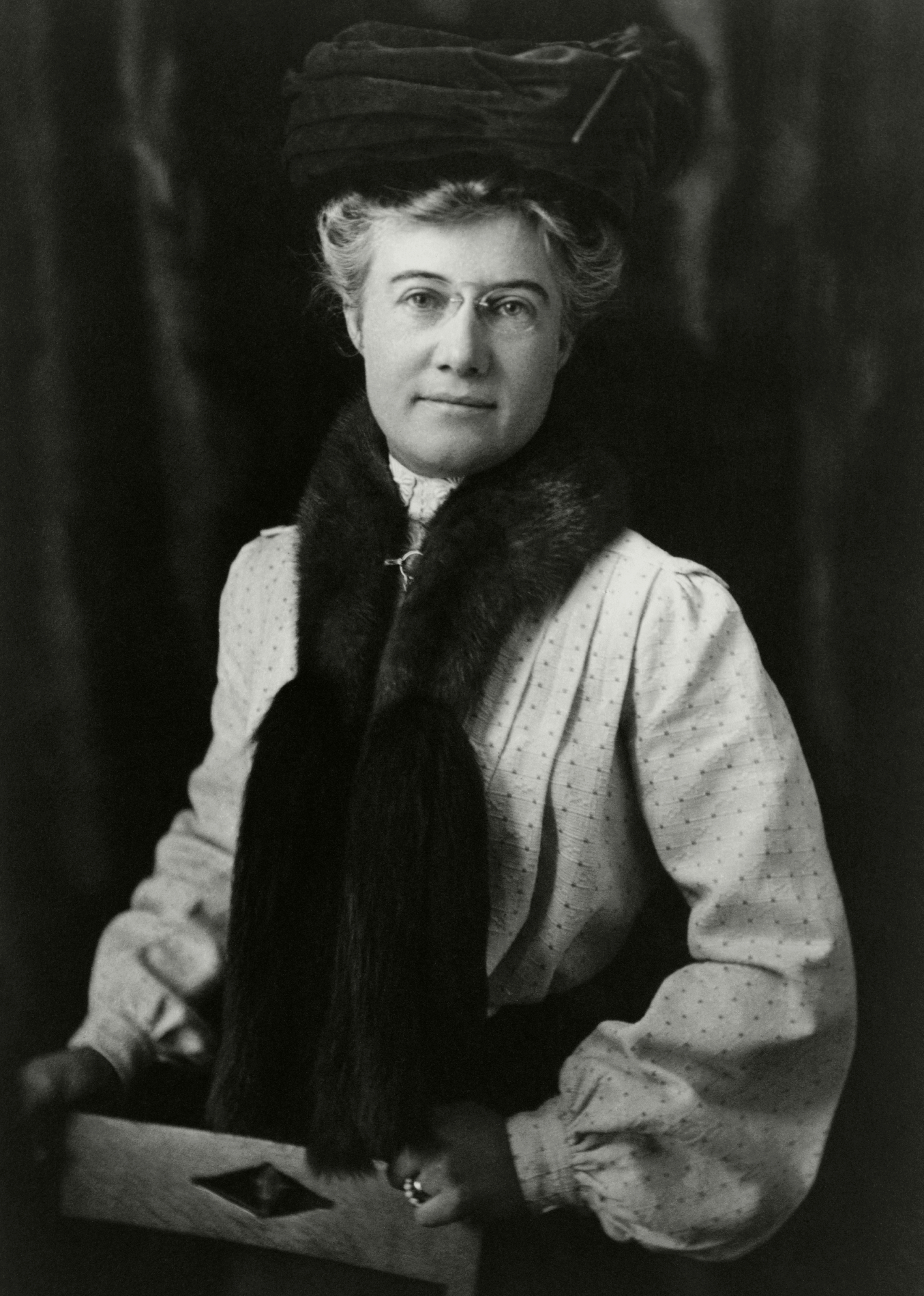 Frances Benjamin Johnston's photograph of her partner, Mattie Edwards Hewitt